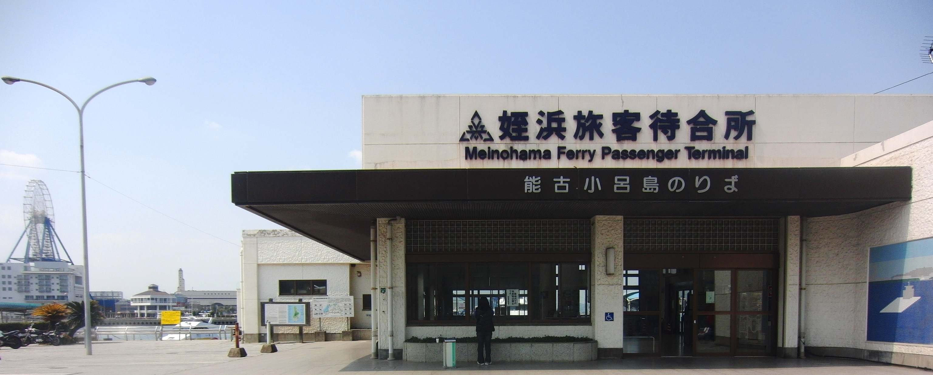 Meinohama Ferry Passenger Terminal, Fukuoka, Japan